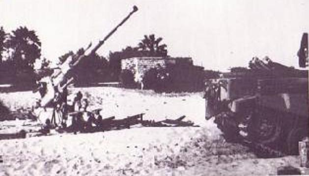 An Egyptian anti air-craft cannon during 1956 Suez war